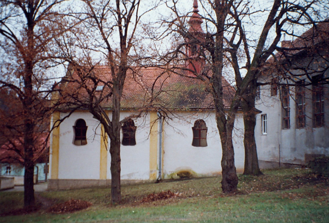 Church in Deštnice